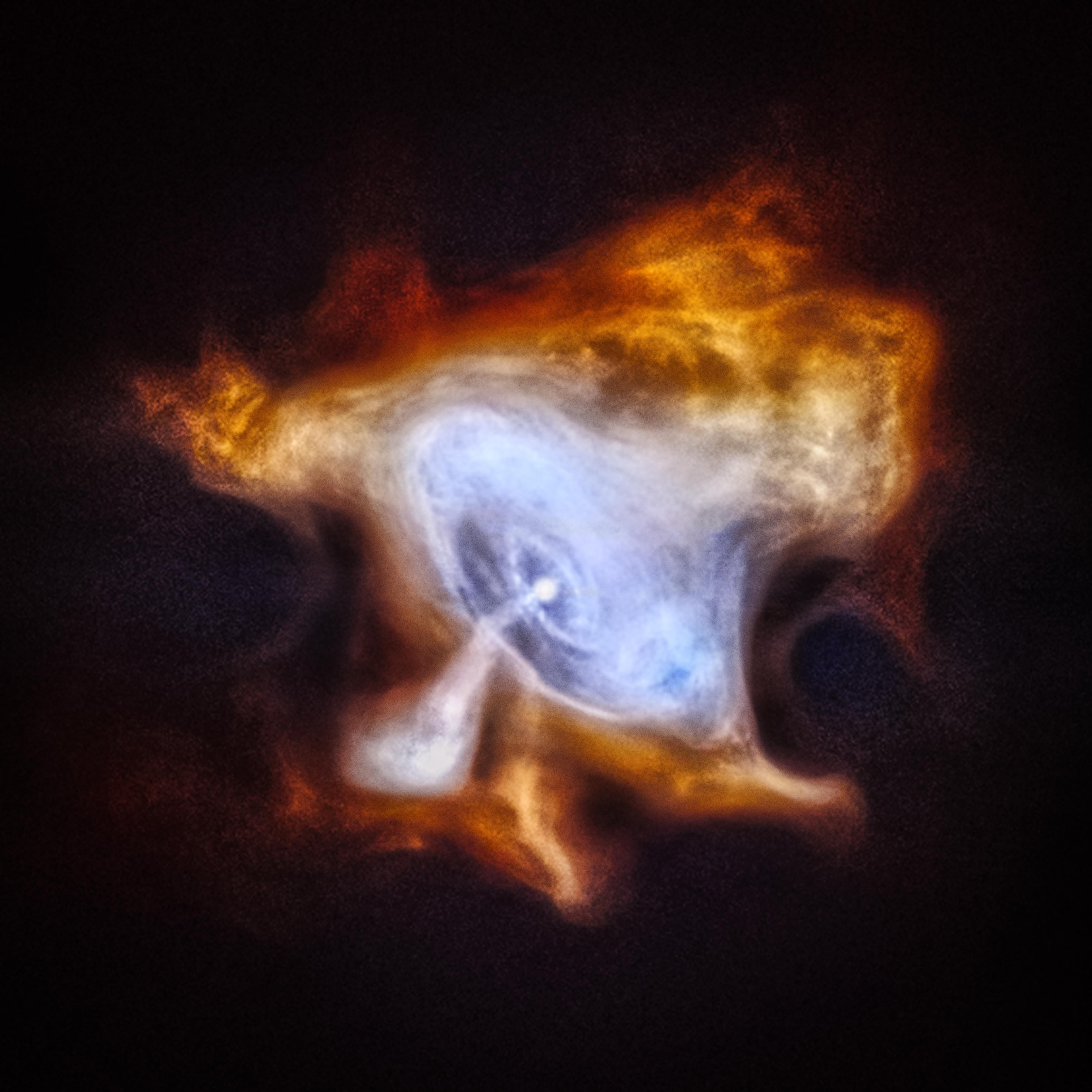 In 1054 AD, Chinese astronomers and others around the world noticed a new bright object in the sky. This Ònew starÓ was, in fact, the supernova explosion that created what is now called the Crab Nebula. At the center of the Crab Nebula is an extremely dense, rapidly rotating neutron star left behind by the explosion. The neutron star, also known as a pulsar, is spewing out a blizzard of high-energy particles, producing the expanding X-ray nebula seen by Chandra. In this new image, lower-energy X-rays from Chandra are red, medium energy X-rays are green, and the highest-energy X-rays are blue.